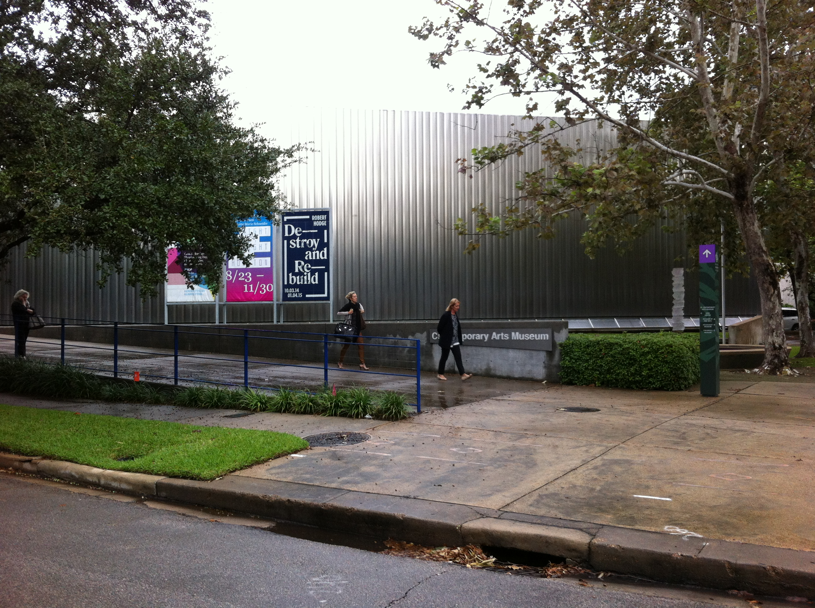 Contemporary Arts Museum Houston